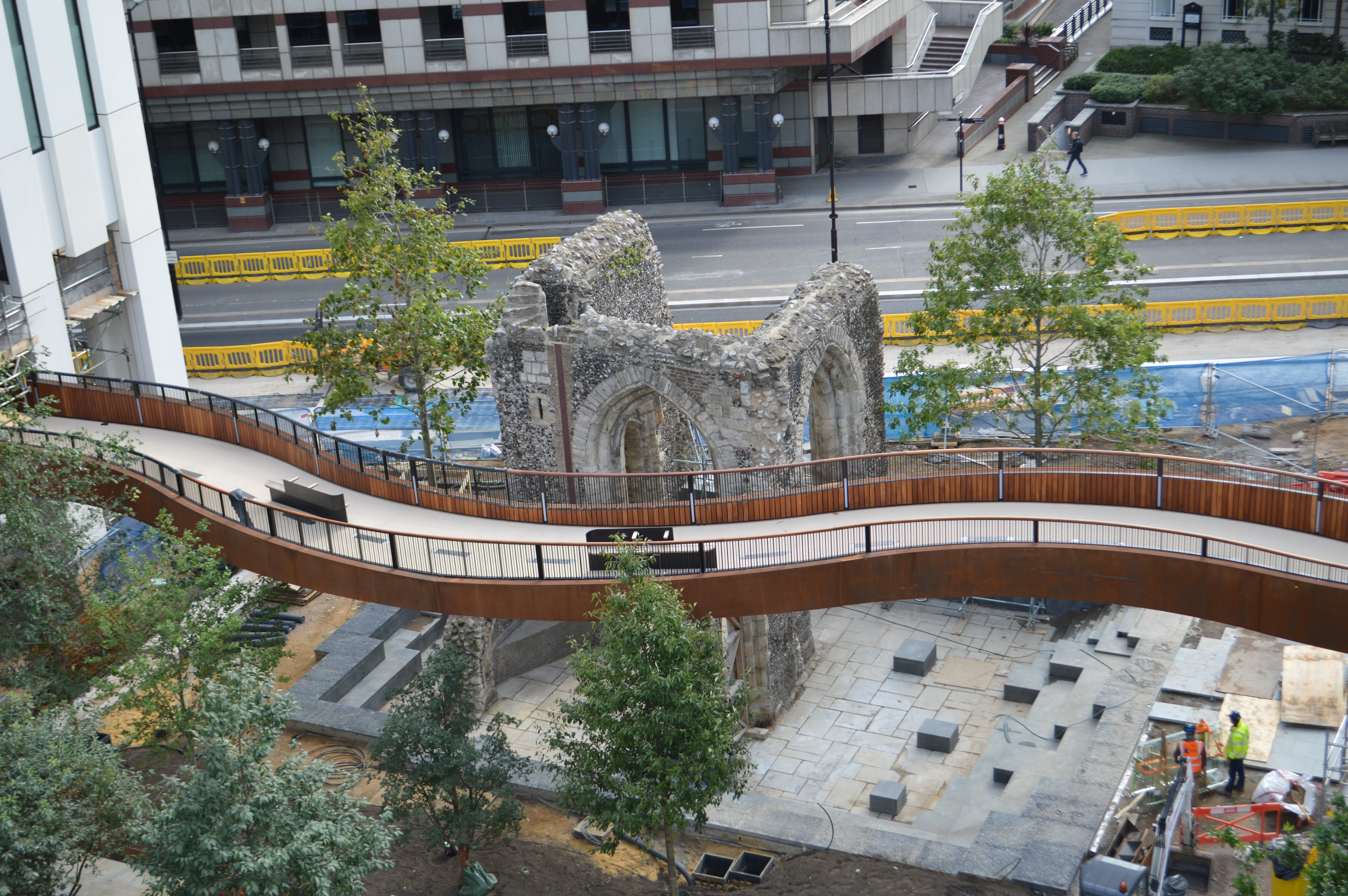 New pedway through London Wall Place